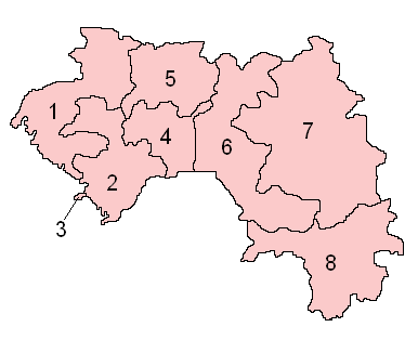 Guinea - regions